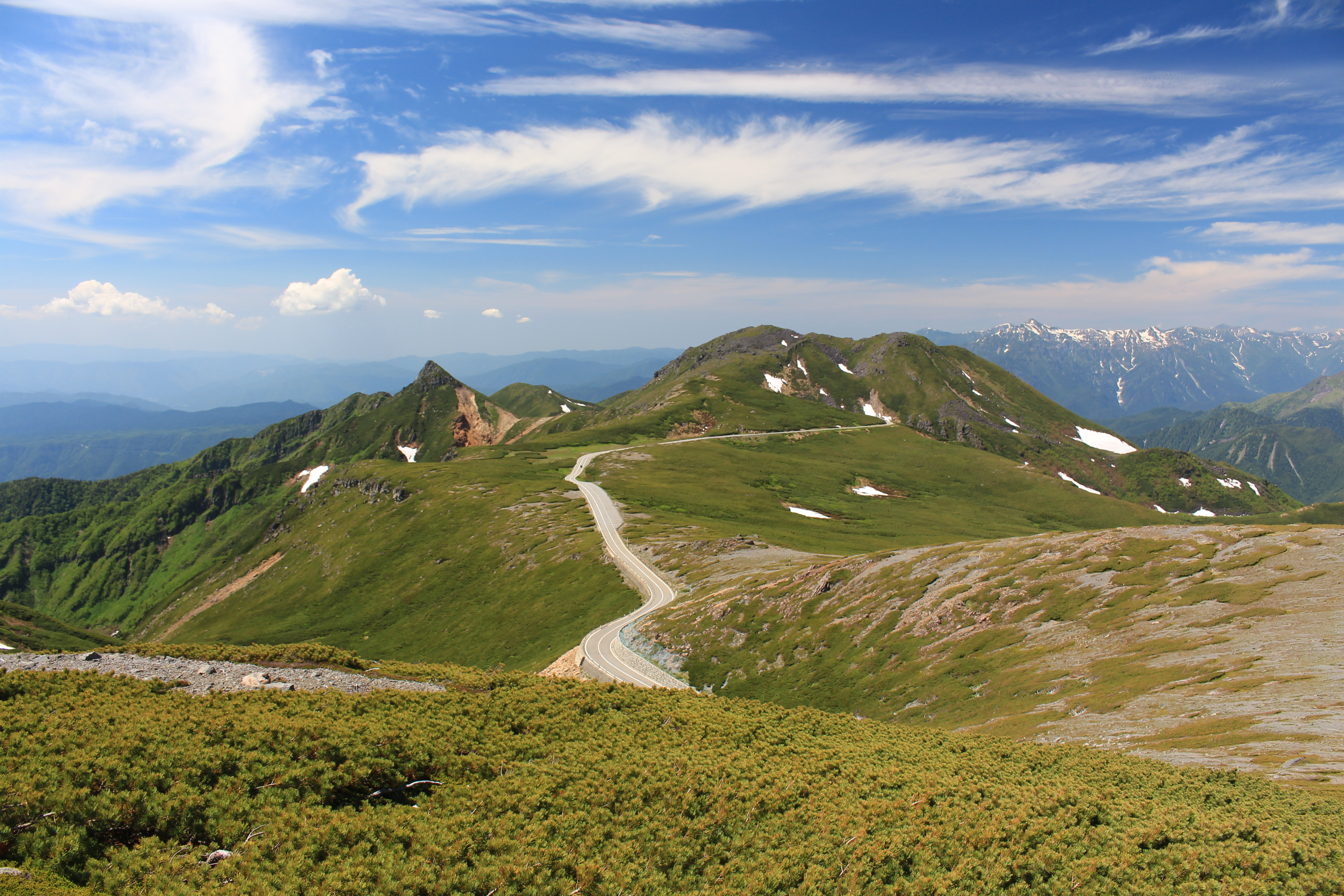 Norikura Skyline seen from Mount Daikoku in Mount Norikura, Hira Mountains, Japan.